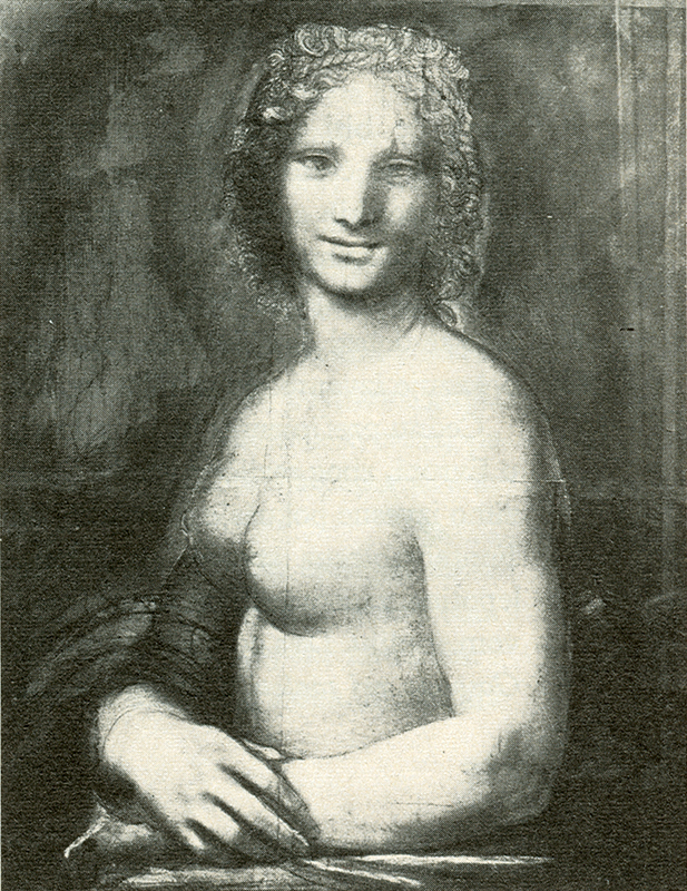 Nude Mona Lisa after the lost original of Leonardo ? This painting was supposed to originate from Leonardo's workshop. Some experts claim that this picture was painted after Leonardo's original – parody of Mona Lisa – made for his patron Giuliano de' Medici.